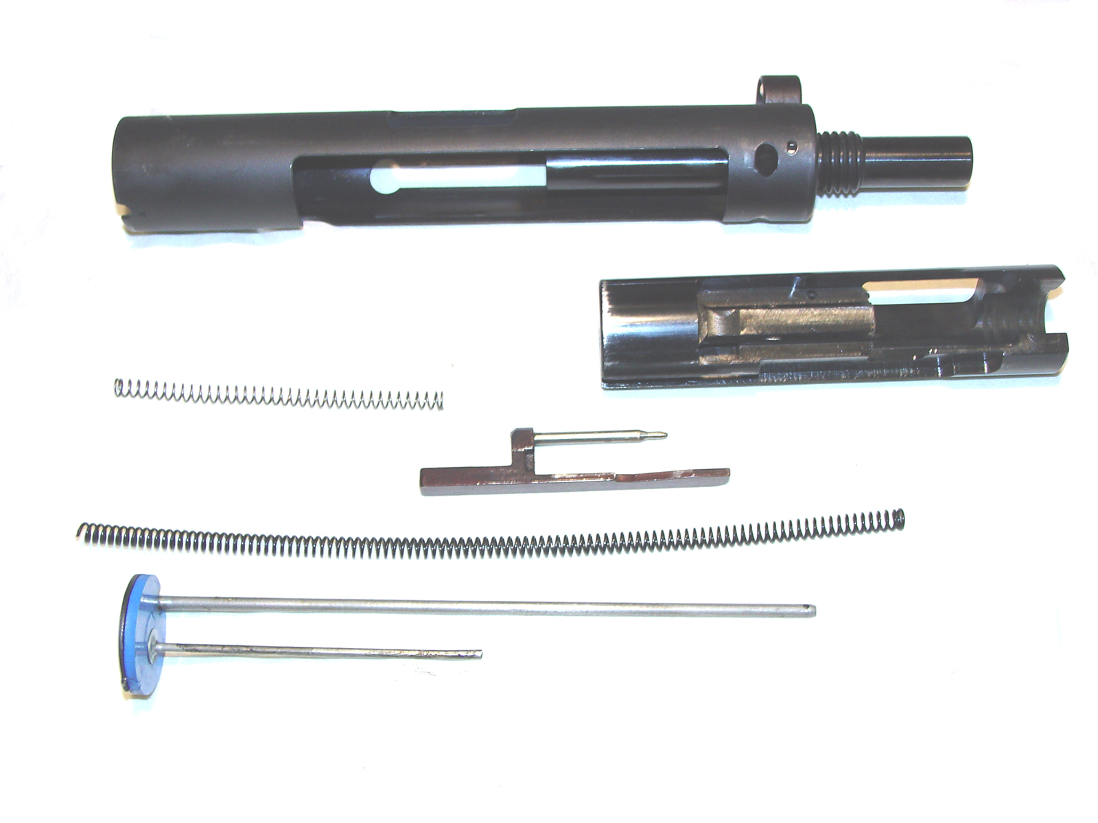 The Claridge S9 upper reciever components. From the top down: The Reciever tube and barrel, the bolt, firing spring, firing pin, guide spring, and guide and firing rods with base plate and recoil buffer. "S9" designates the model and caliber: sub-compact 9mm Luger.